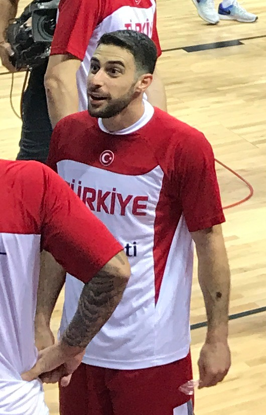 eurobasket 2017 GBR-TUR prematch Turkish side